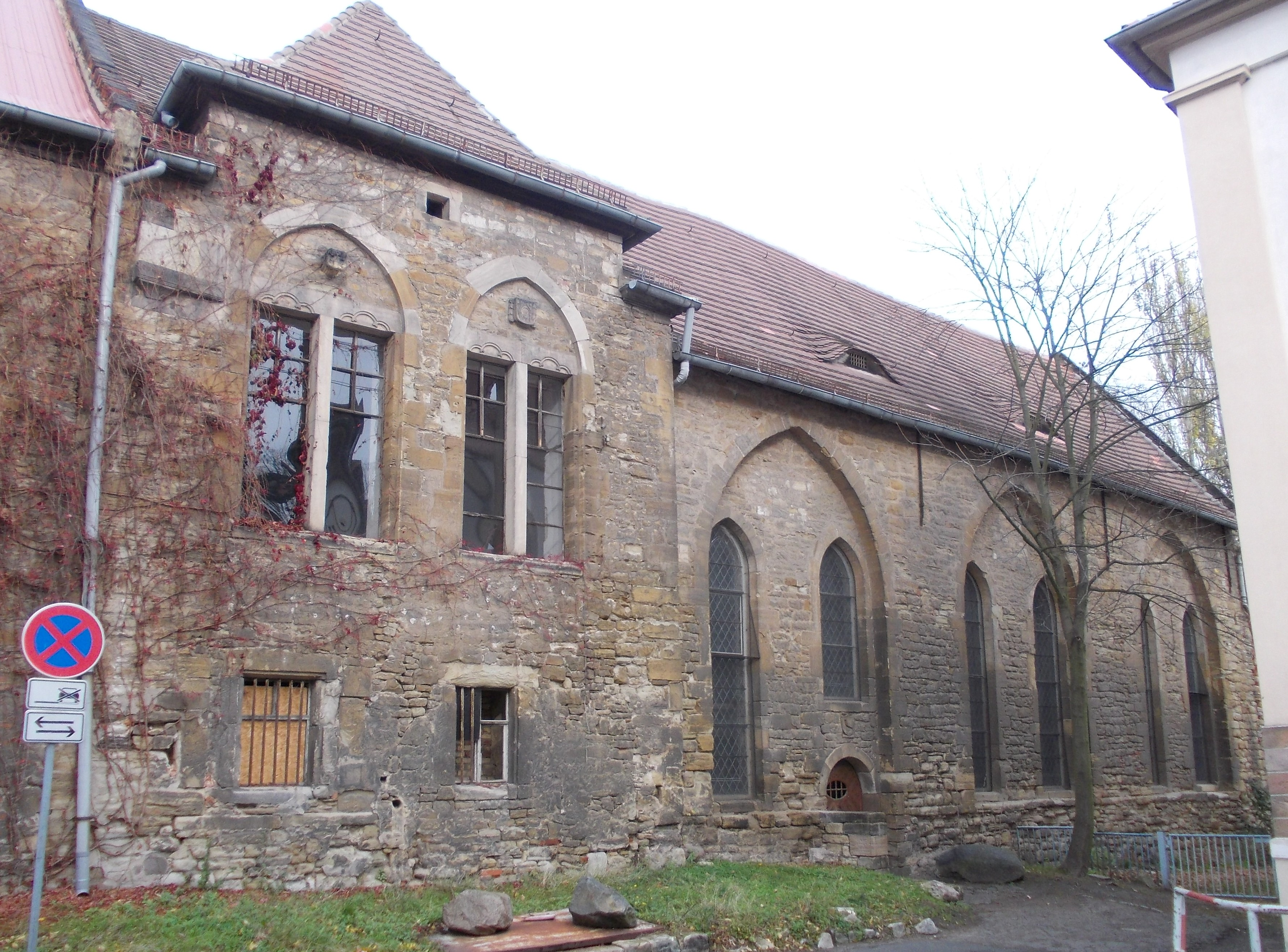 Monastery St. Peter in Merseburg (district: Saalekreis, Saxony-Anhalt)